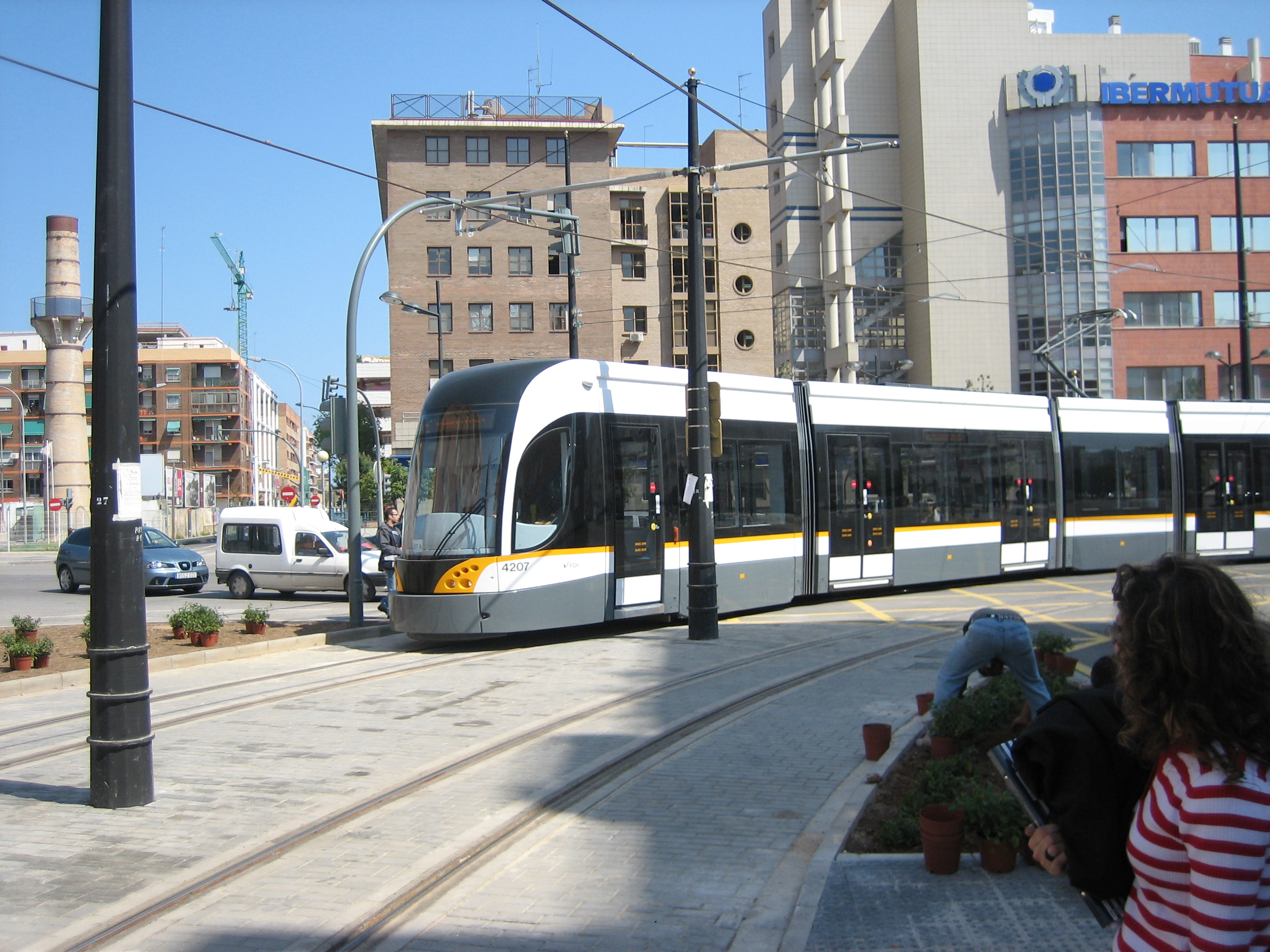 Bombardier Flexity Outlook Cityrunner in Valencia Spain, part of Metrovalencia system that combines metro and tram.